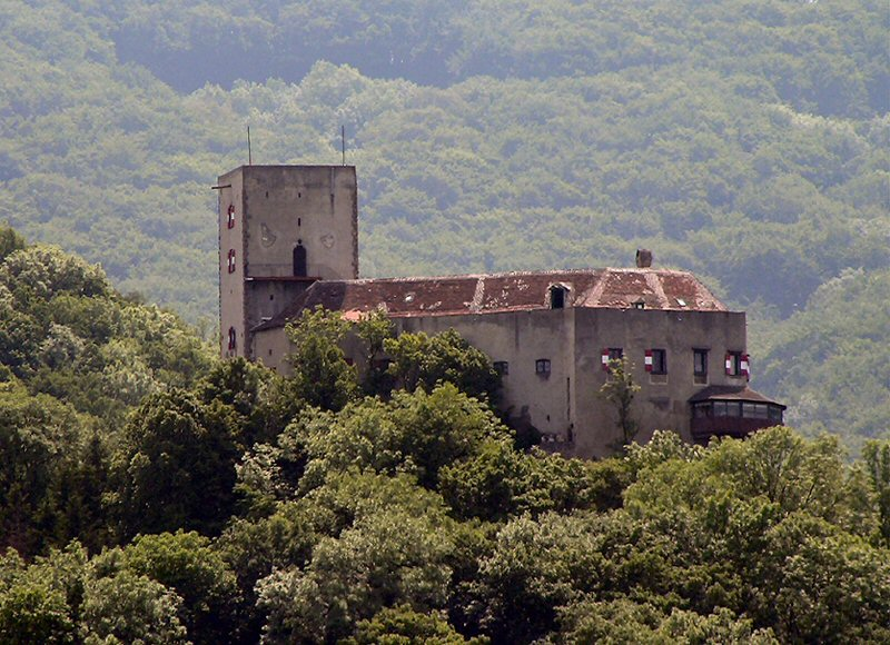 Burg Greifenstein.